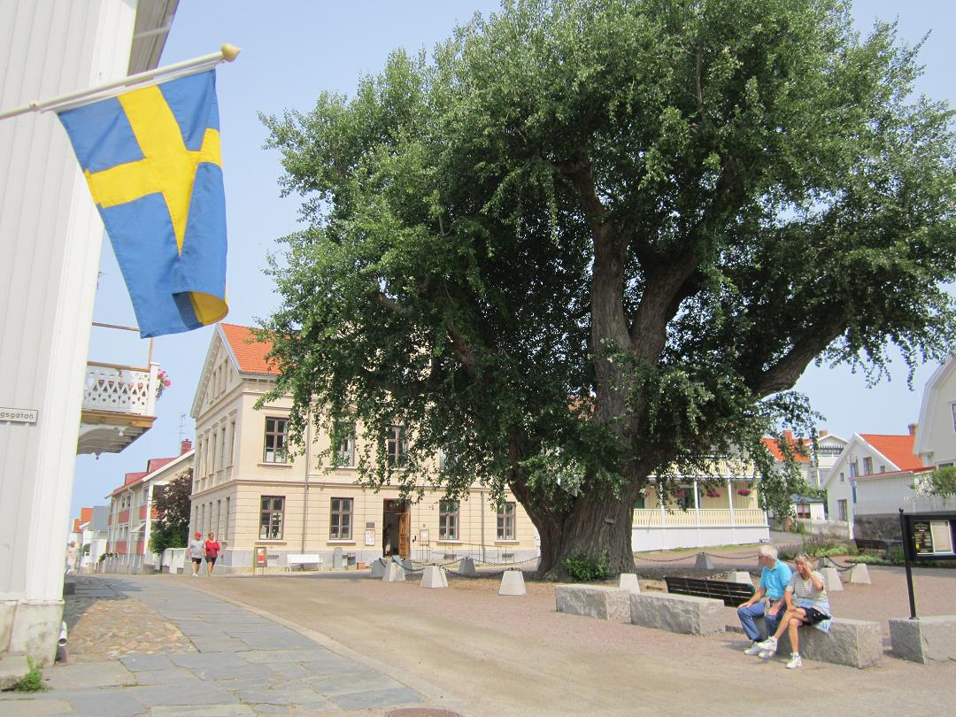 Town square with the old courthouse Rådhuset Place: Marstrand, Sweden